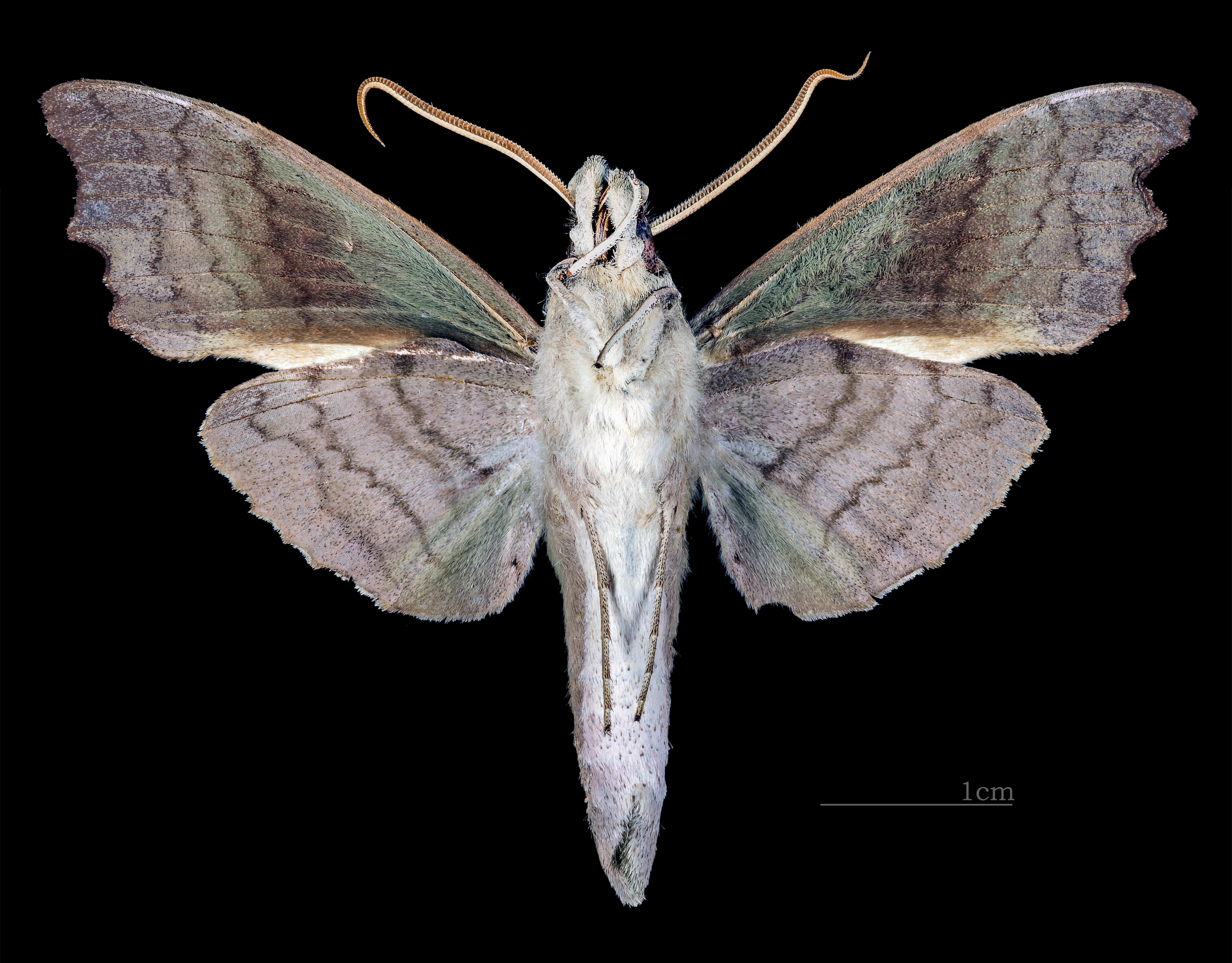 Aleuron chloroptera - △ Ventral side